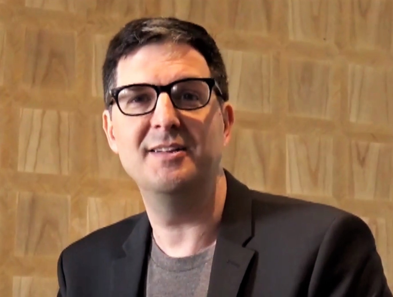 The Little Prince Interviews: Director Mark Osborne and actress Mackenzie Foy interviewed by Dulce Osuna. The Little Prince on Netflix on August 5.